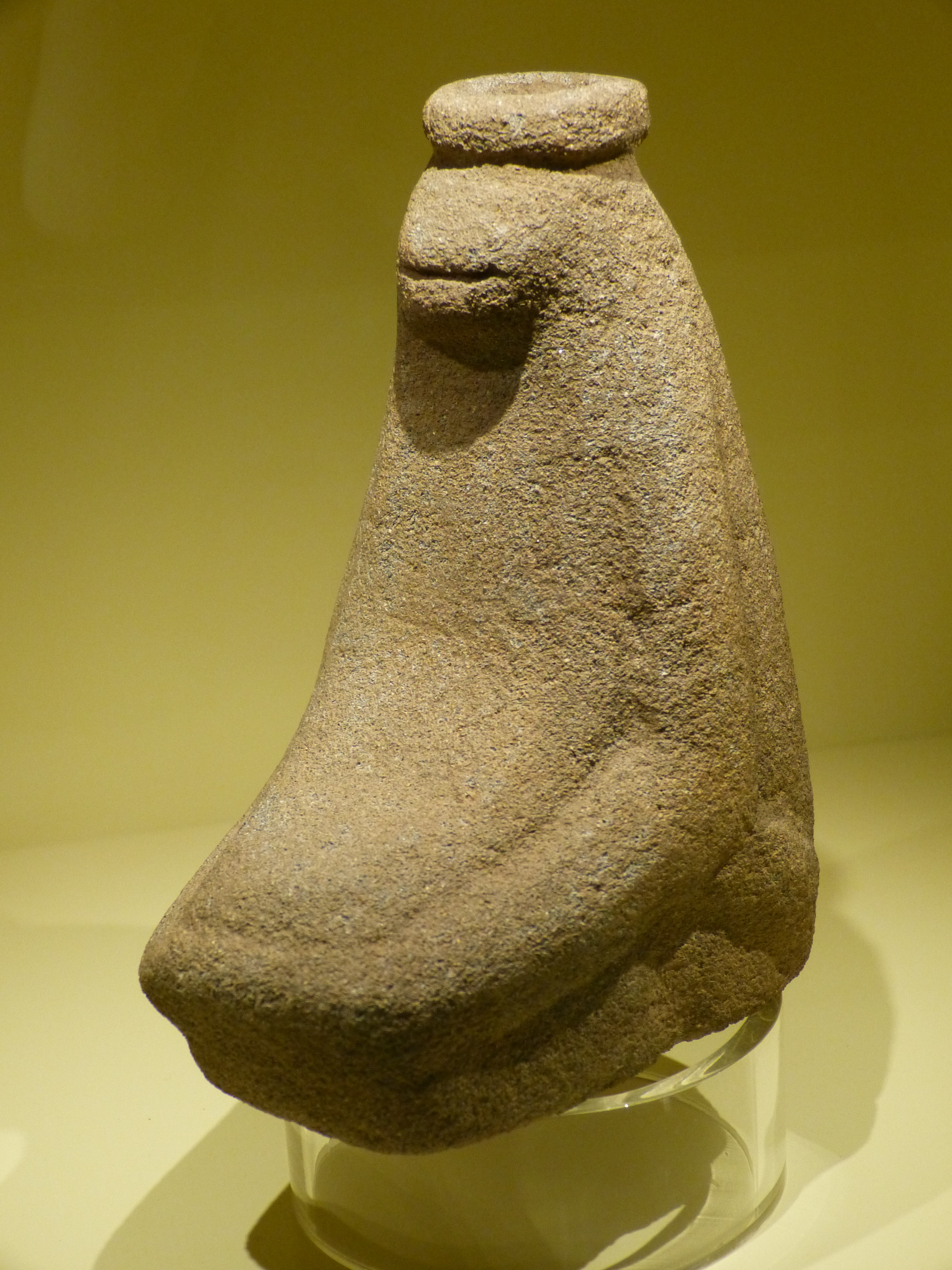 Santa Cruz de Tenerife ( Spain ). Museo de la Naturaleza y el Hombre - Guanche collections: Replica of an anthropomorph sitting idol from Zonzamas ( Lanzarote )